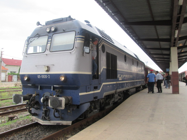 Diesel locomotive GM 65-0920-2 (GM implies that its fitted with General Motors EMD engines) at Oradea train station Romania. Notice the unusal Intercity livery, the only one bearign this livery.